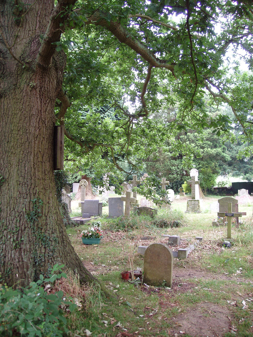 Nick Drake's gravestone, St Mary Magdalene, Tanworth-in-Arden. Inscribed with the epitaph 'Now we rise/And we are everywhere', taken from the final song on his final album.